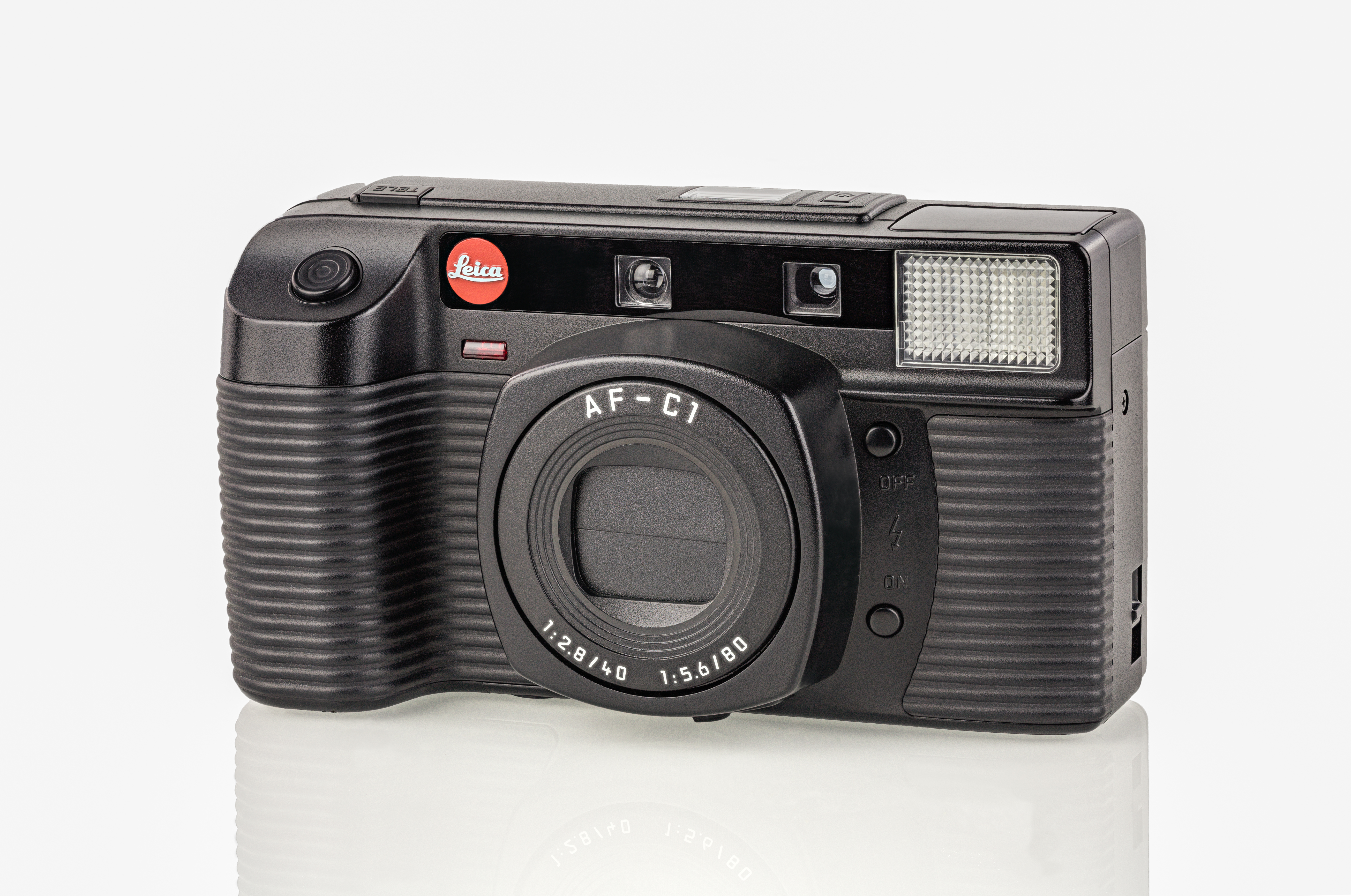 Leica AF-C1 (1989–1991) in Cooperation with Minolta . It was the first Leica-Compactcamera 1:2,8 - 5,6. Photograph: Focus stacking from 14 single pictures